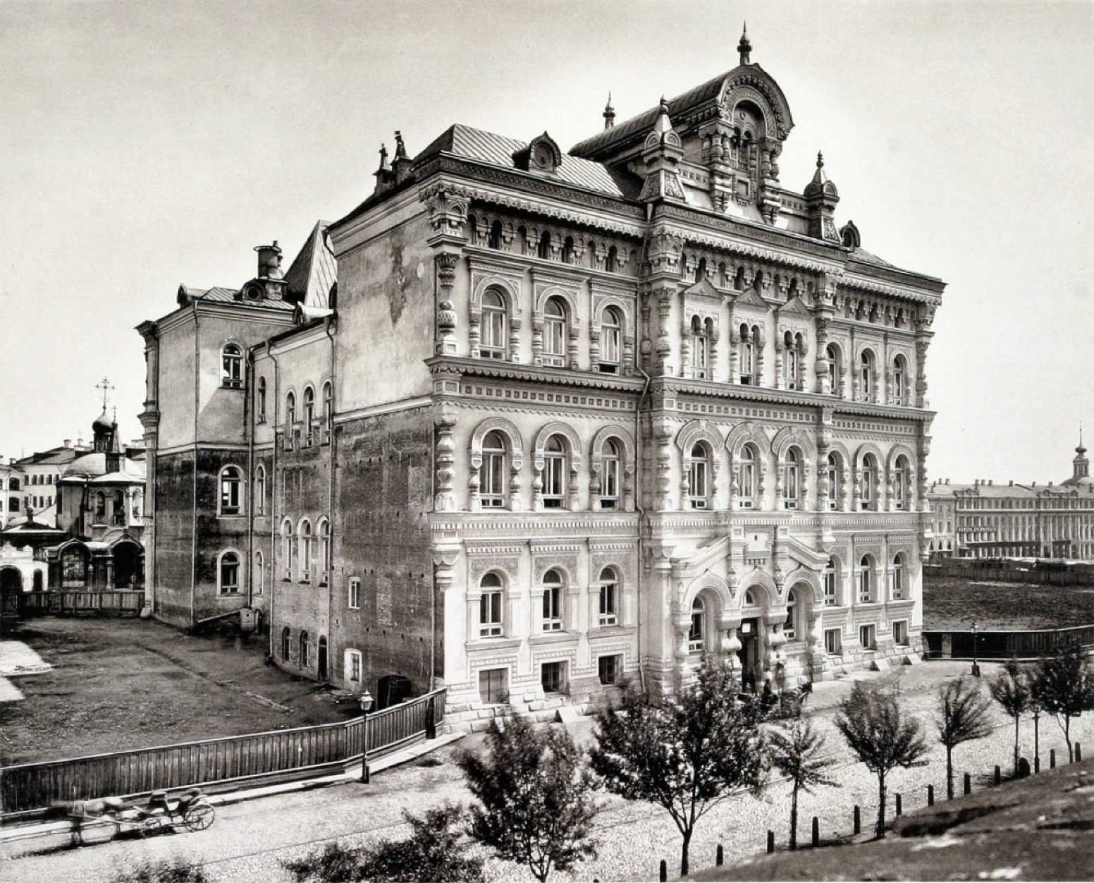 Polytechnical Museum in Moscow